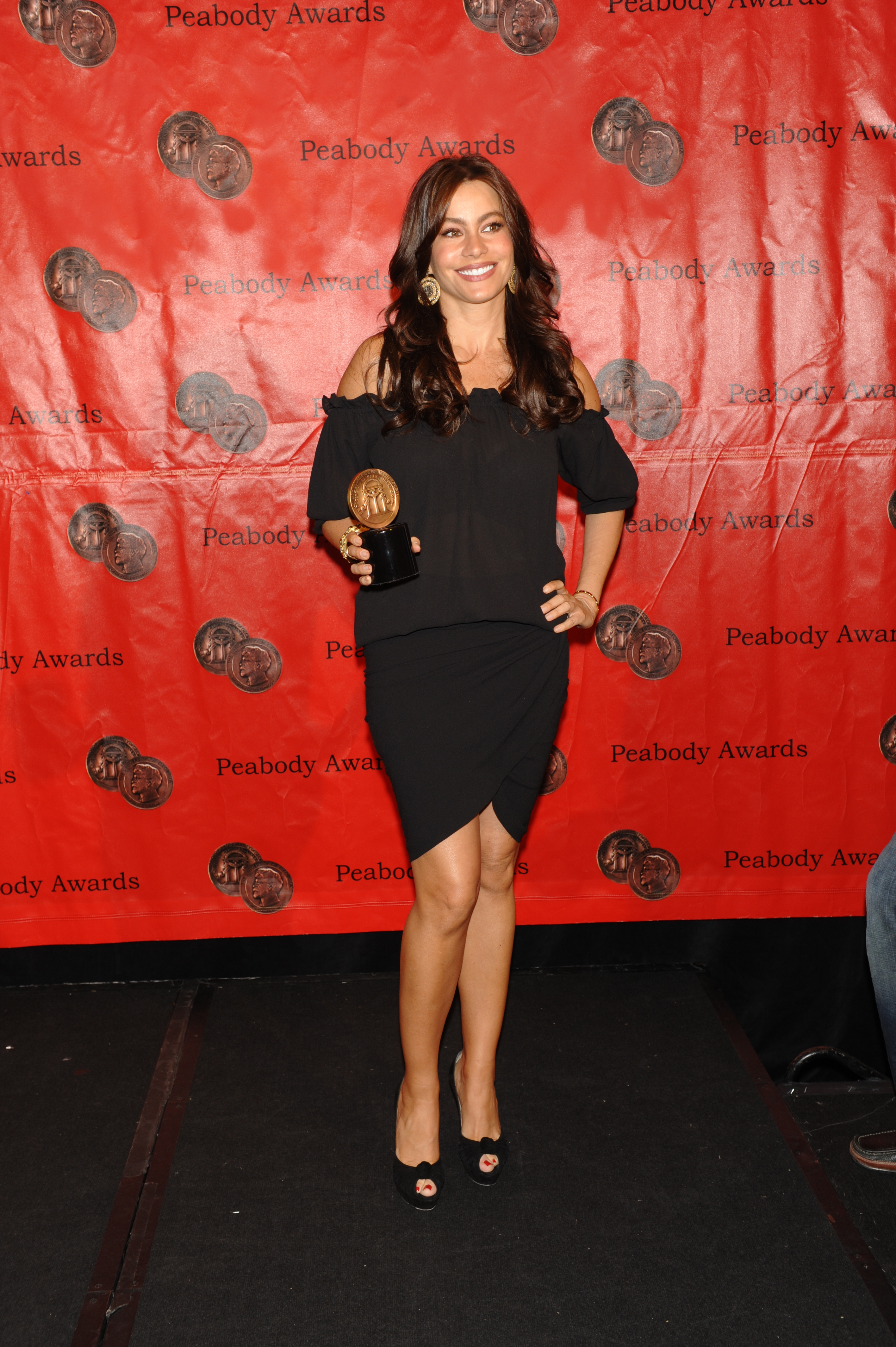 Sofía Vergara 69th Annual Peabody Awards Luncheon Waldorf=Astoria Hotel New York, NY USA May 17, 2010